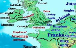 This image is a zoomed-in version of Eastern Hemisphere in 500 AD. Eastern Hemisphere in 500 AD. Author: Thomas A. Lessman. Source URL: Image was created by me (Thomas Lessman) based on map of Eastern Hemisphere in 500 AD. Image is free for public and/or educational use. I would appreciate a mention if this image is used elsewhere. If anyone is interested in helping further this work, please contact Thomas Lessman at . Other Historical Maps by Thomas Lessman 1. en: 500 BC. 2. en: 323 BC. 3. en: 200 BC. 4. en: 100 BC. 5. en: 050 BC. 6.en: 001 AD. 7. en: 050 AD. 8. en: 100 AD. 9. en: 200 AD. 10. en: 300 AD. 11. en: 400 AD. 12. en: 475 AD. 13. en: 476 AD. 14. en: 477 AD. 15. en: 500 AD. 16. en: 565 AD. 17. en: 600 AD. 18. en: 700 AD. 19. en: 800 AD. 20. en: 900 AD. 21. en: 1025 AD. 22. en: 1100 AD. 23. en: 1200 AD.